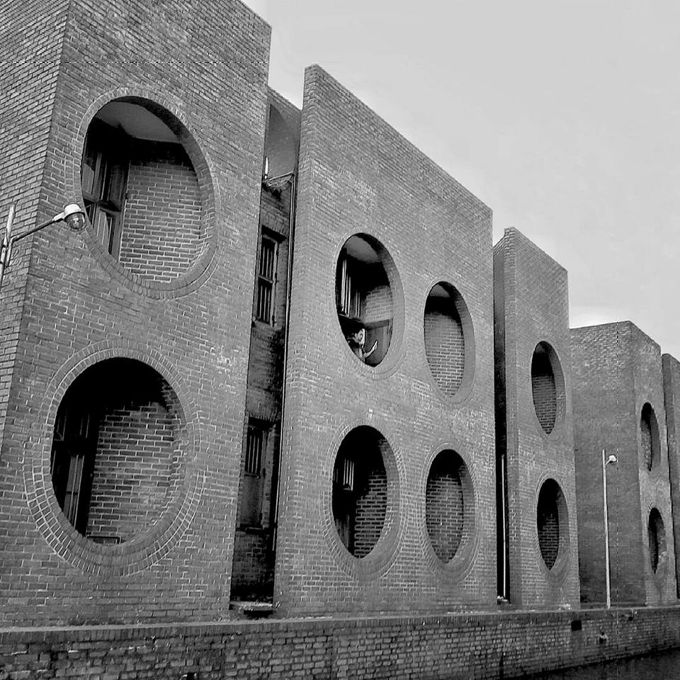 Life In a Circle. Jatiya Sangsad Bhaban or National Parliament House, is the house of the Parliament of Bangladesh.This photo was taken nearby building of parliament house its known as MP Hostel.A man was browsing his phone there.